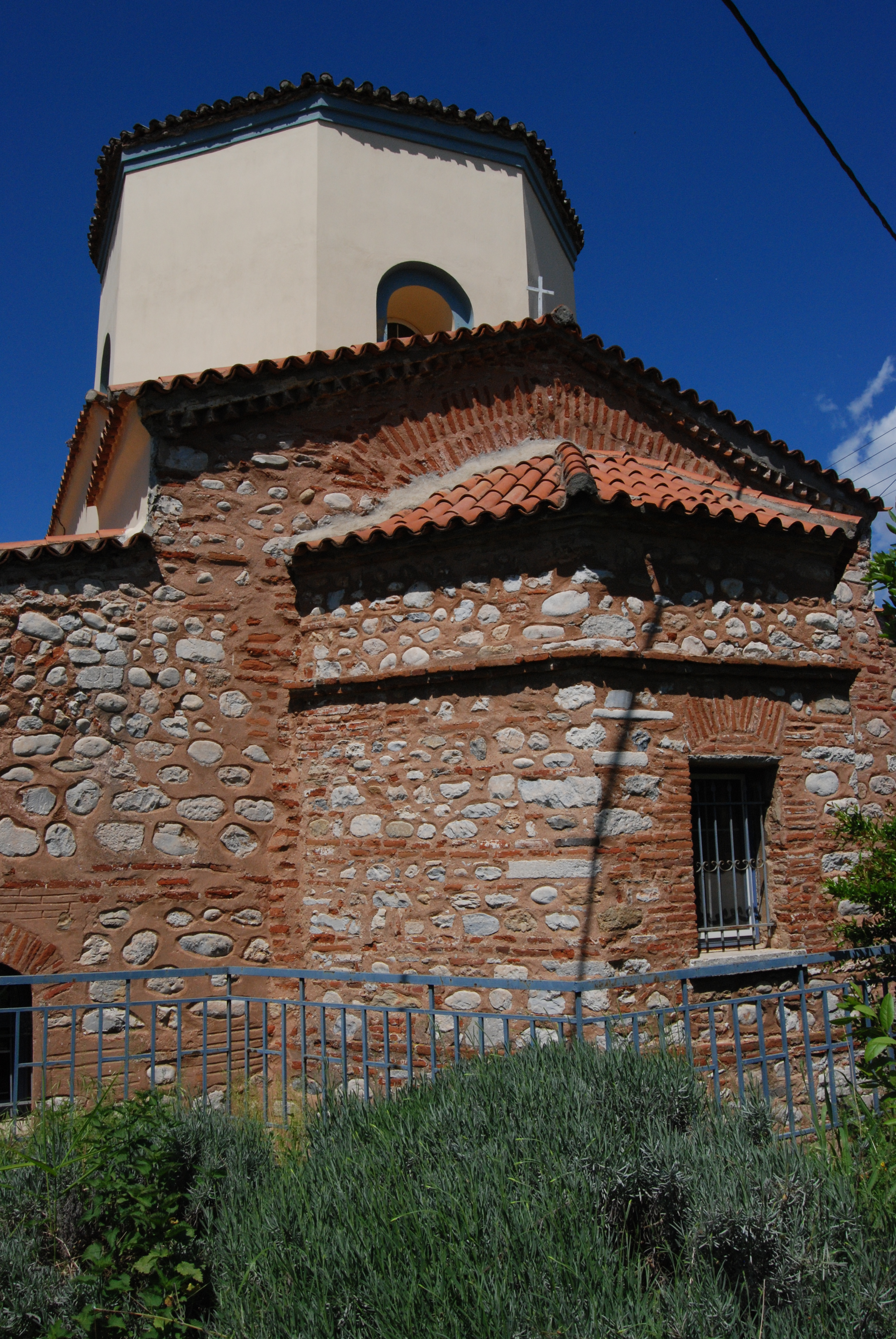 The church of St. Sophia in the town of Drama, Greece